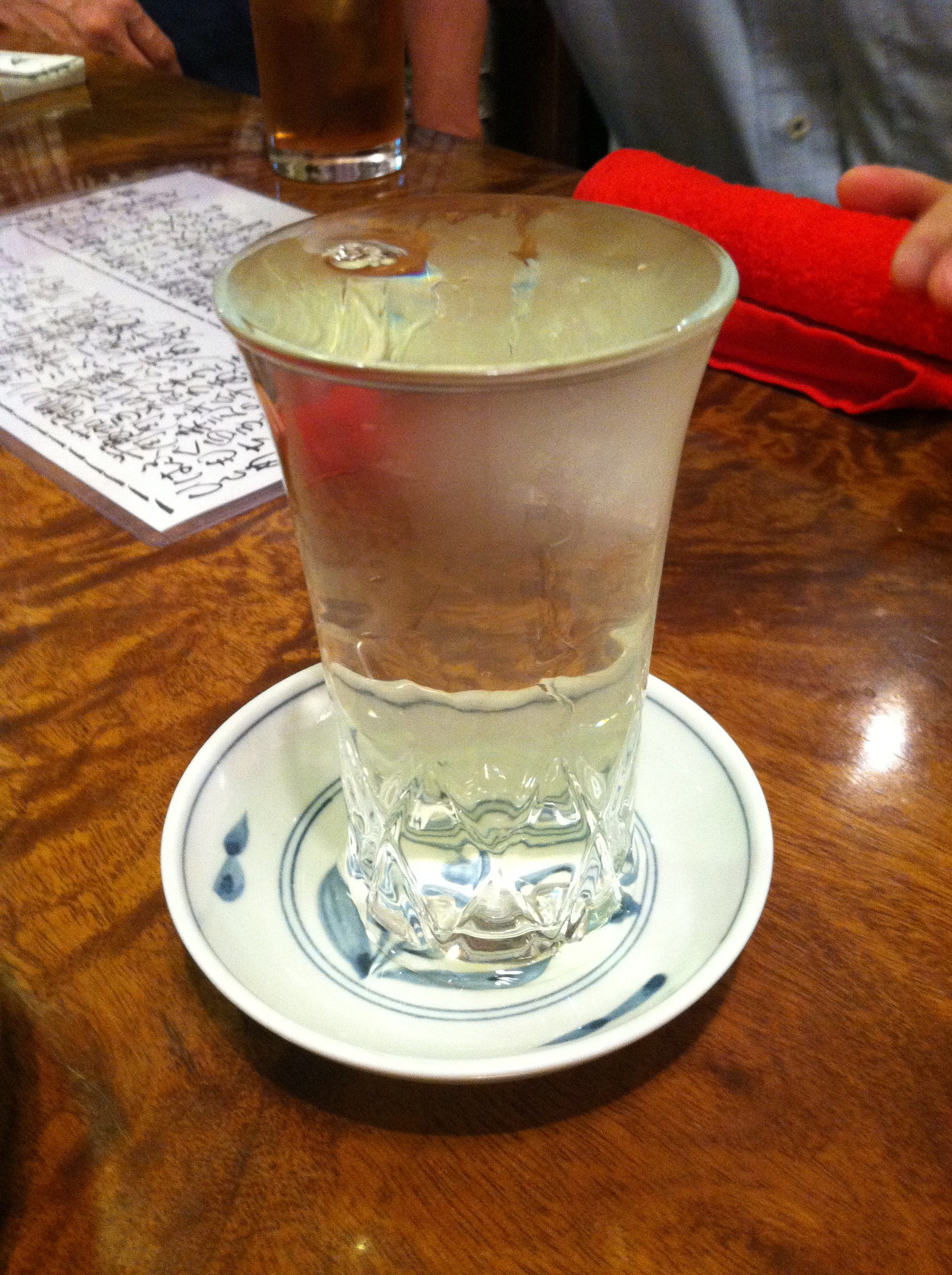 The first full day in Japan starts with a Japanese breakfast, bus tour of Kyoto including Kinkaku-ji, Kiyomizu, Fushimi Inari Taisha, lunch at Kagaribi, Hawaiian Air Gala event, unagi dinner and sashimi place, whew!